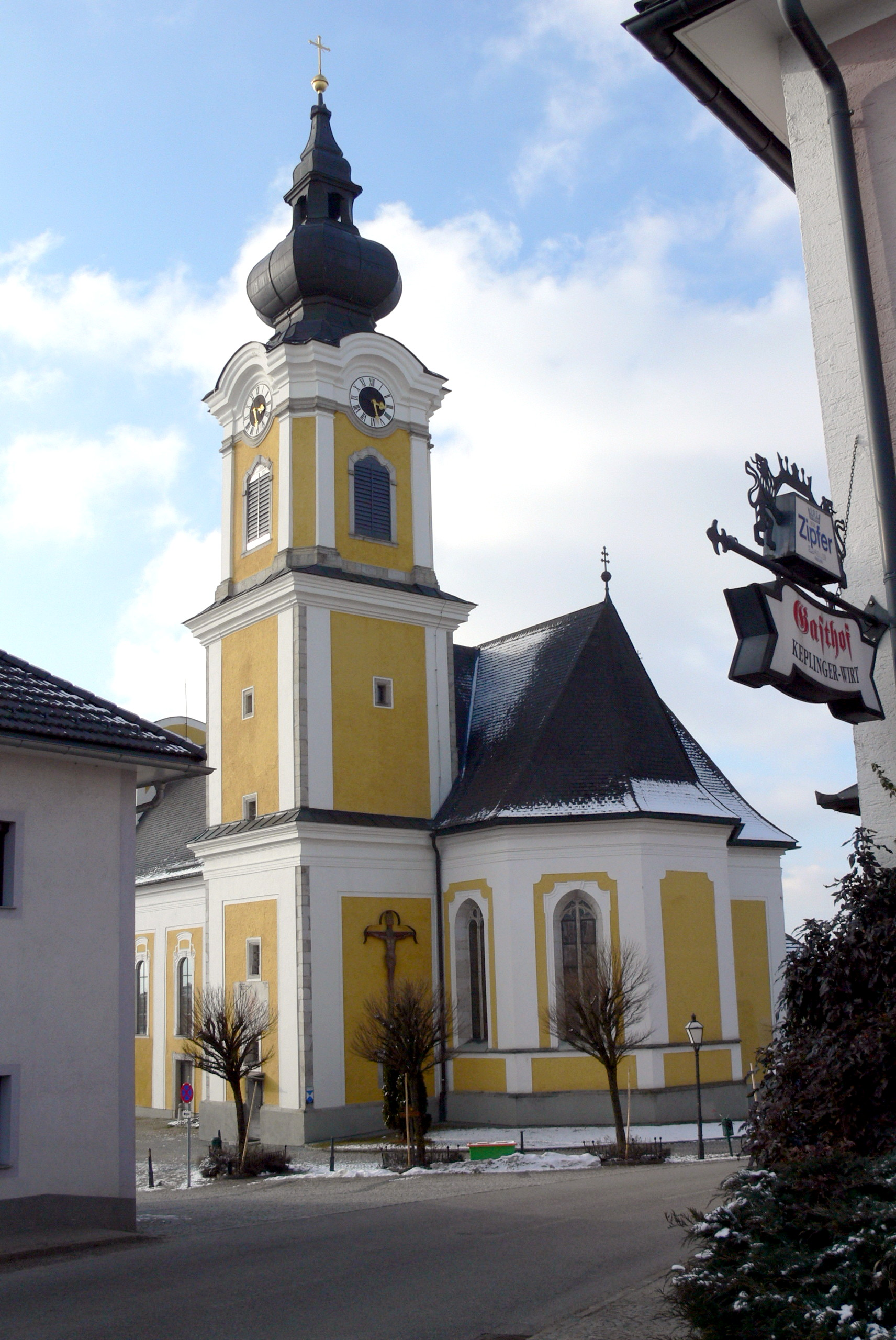 St.Johann am Wimberg ( Upper Austria ). Saint John the Baptist parish church.